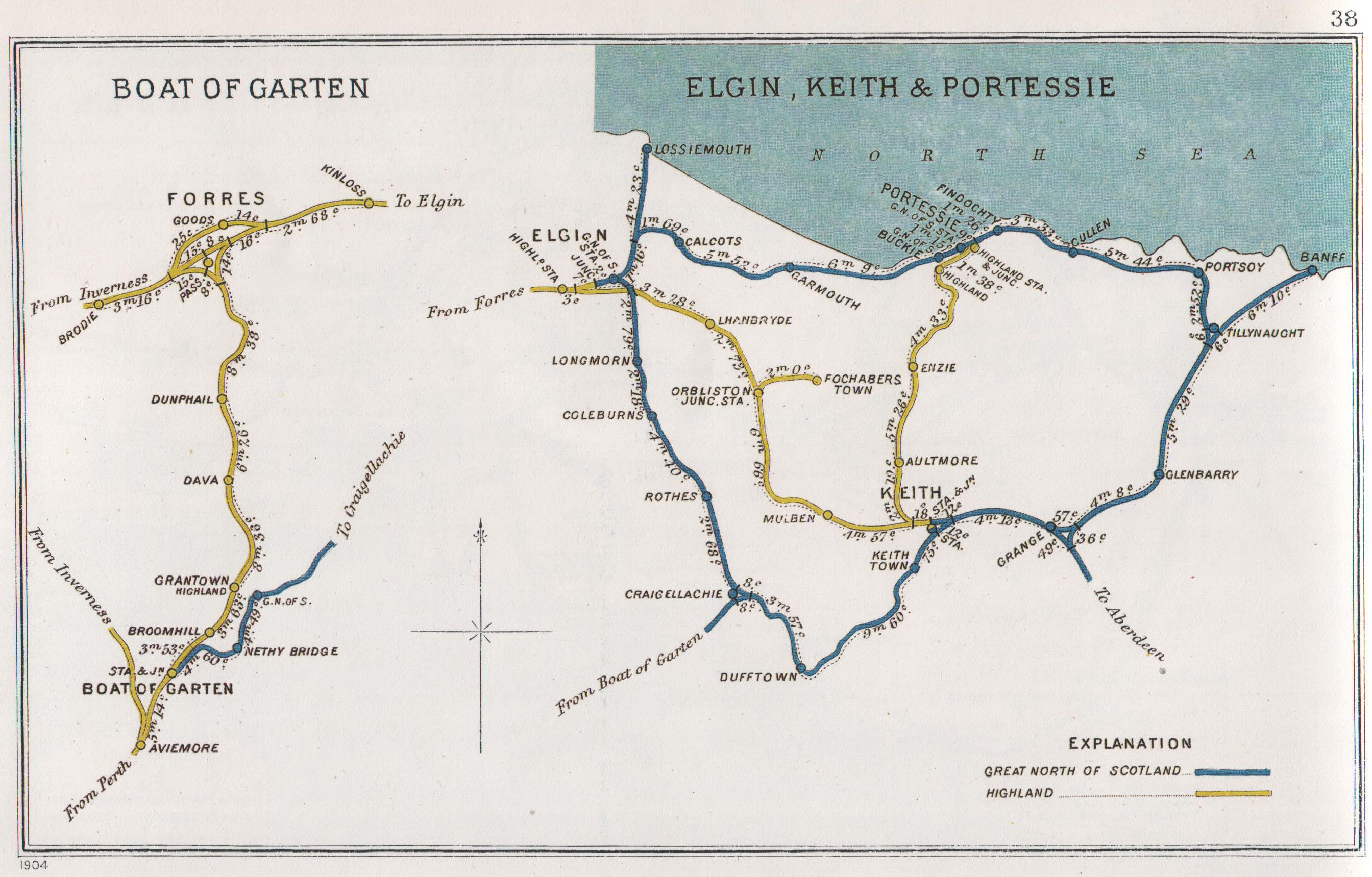 Railway Junctions in Boat of Garten; Elgin, Keith & Portessie pre grouping